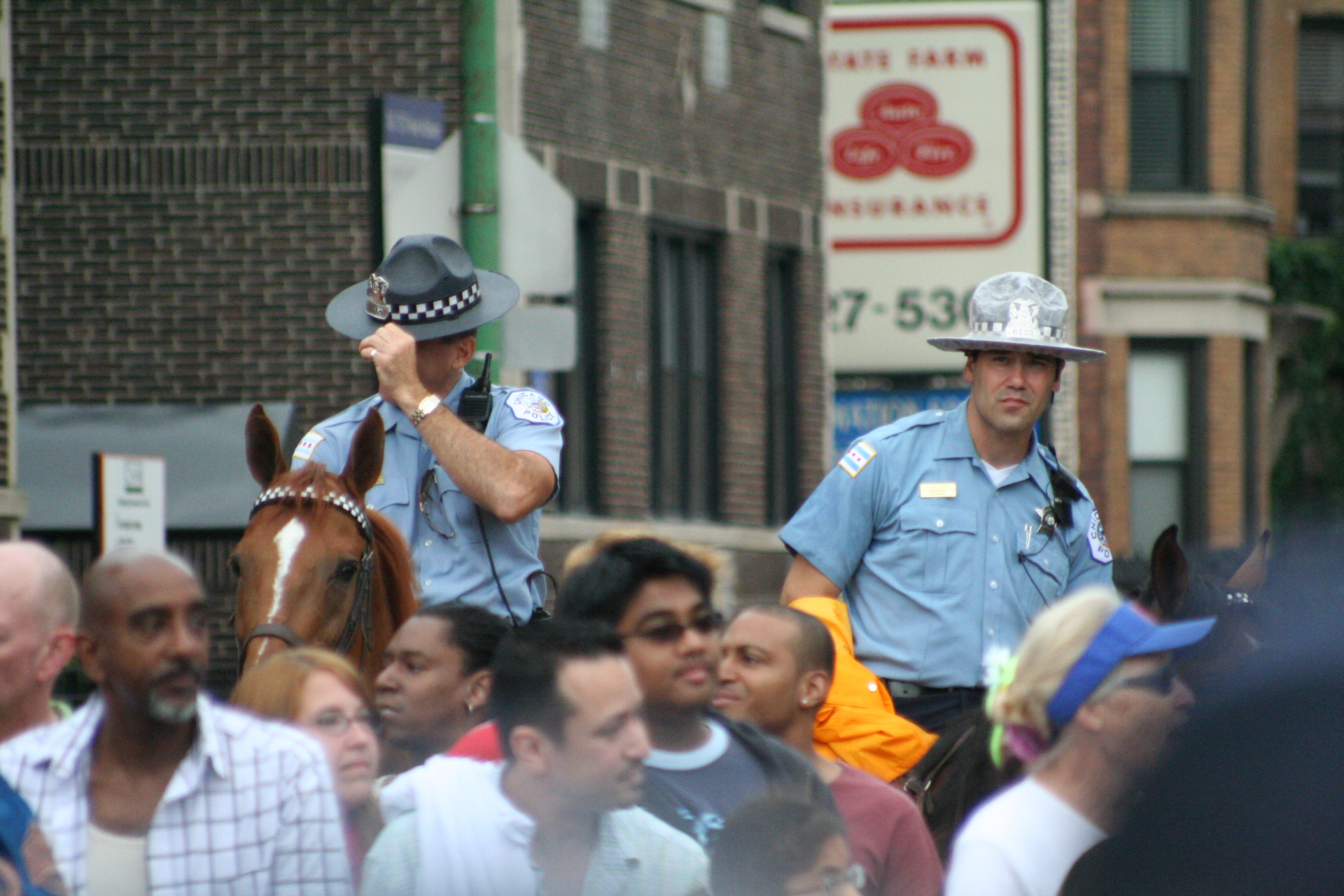 Chicago police officers on horseback, with Sillitoe Tartan hat bands